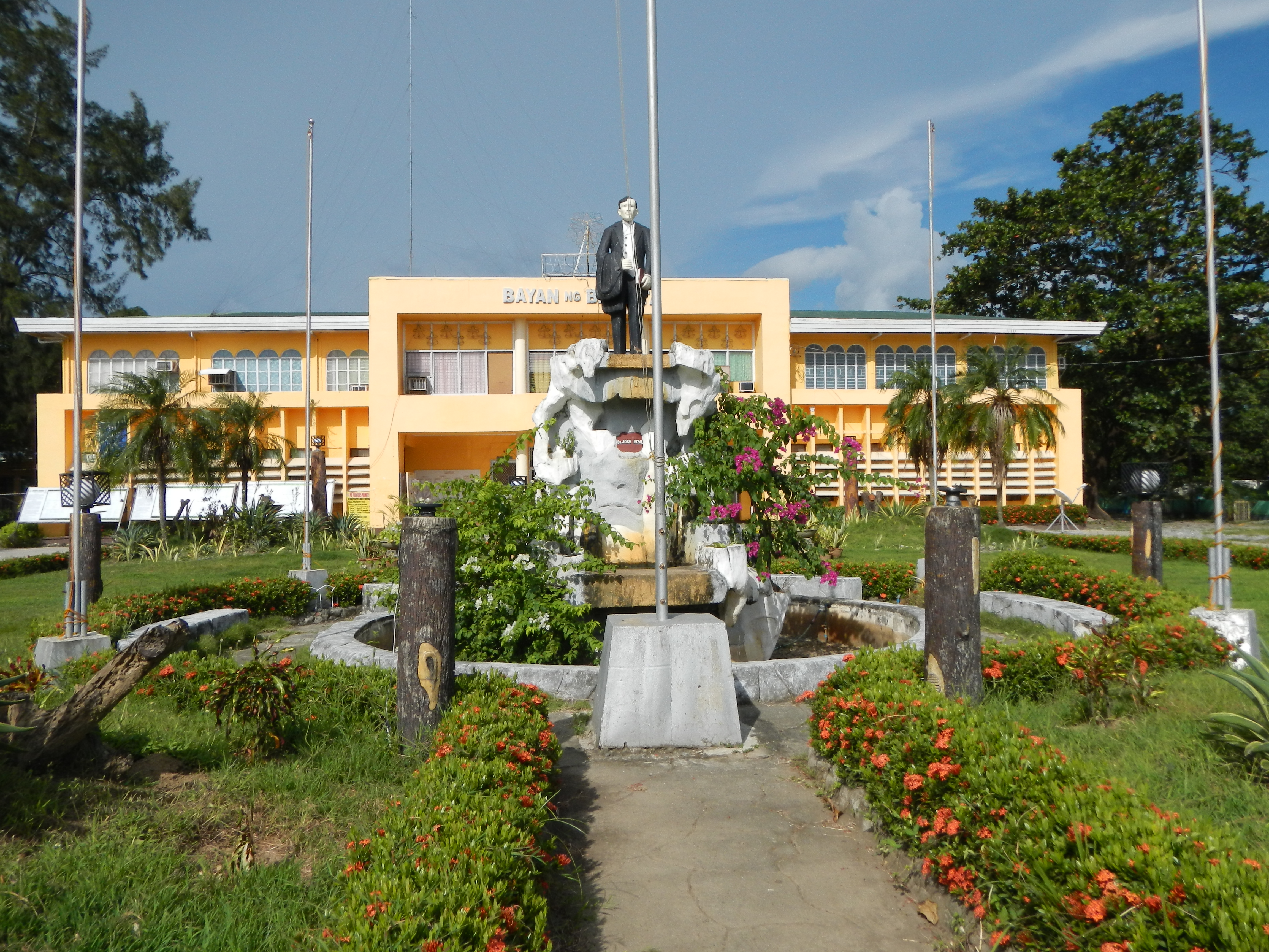 UploadWizard photos -- (General description) -- [1] Basista Municipal Hall (Basista, Pangasinan) office building, town hall, local government Coordinates: 15°51'30"N 120°23'59"E - National, Maharlika Highway and Provincial Road, Centro, Downtown of -- Basista, Pangasinan [2] ( is a fourth class municipality in the Province of Pangasinan, Philippines - 2010 census, with a population of 30,385 people, politically subdivided into 13 barangays.[ Land Area: 24.00 km² ZIP Code: 2422 Coordinates: 15°52'2"N 120°24'1"E [3] [4] Geographical location: Pangasinan, Region 1, Philippines, Asia Geographical coordinates: 15° 51' 18" North, 120° 24' 7" East Website Basista Public Market[5] Coordinates: 15°51'12"N 120°24'8"E)